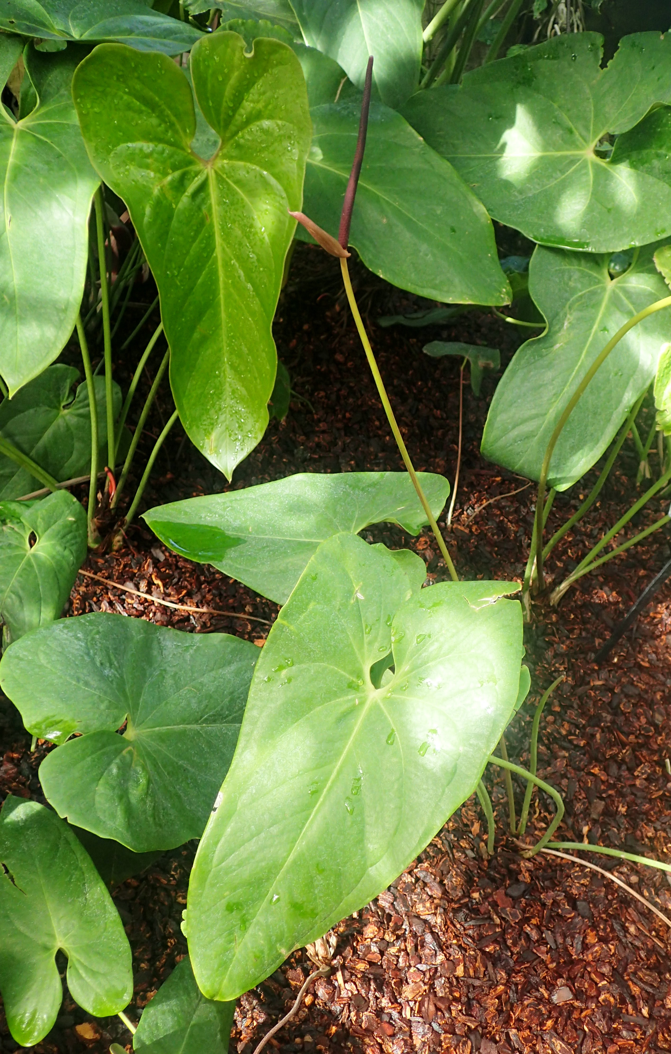 Anthurium lucens at Garfield Park Conservatory